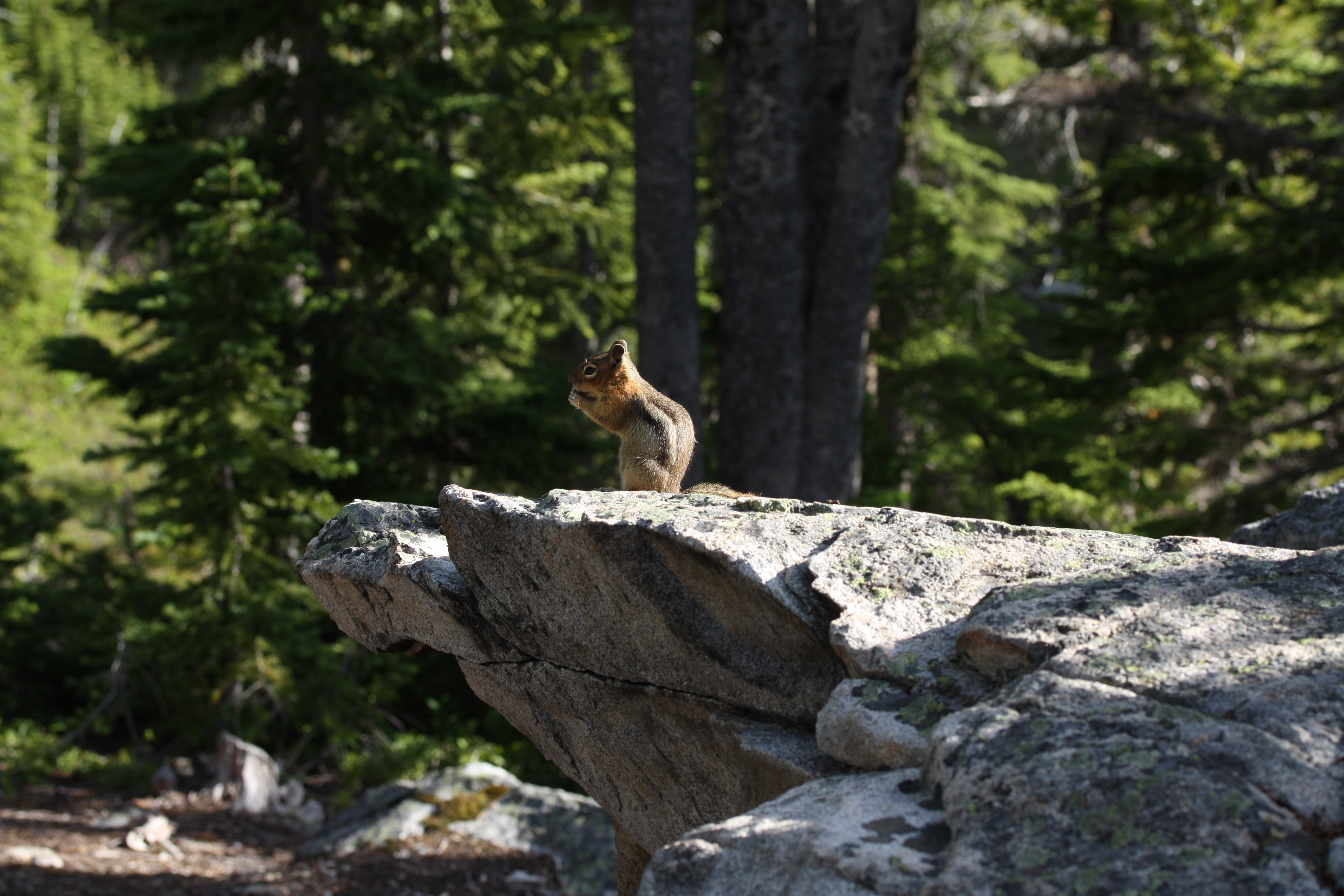 Cascade Golden-mantled Ground Squirrel in Henry M. Jackson Wilderness (identified by location)